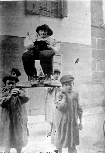 Olentzero in Oiartzun